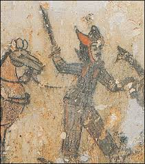 Kokuryeo Korean sword Hwando (original Katana)